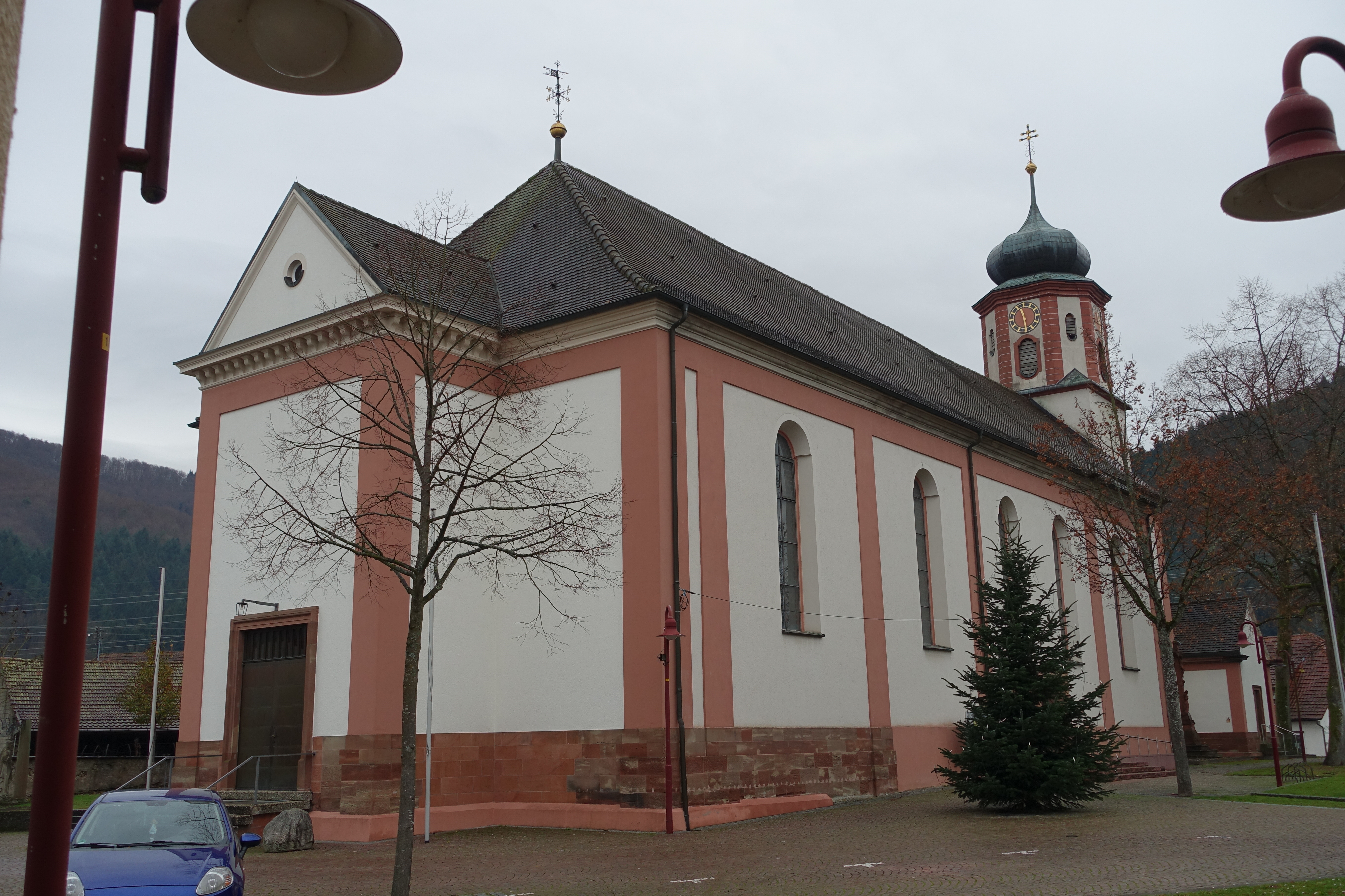 Kreuzerhöhung church in Steinach (Ortenaukreis) from west